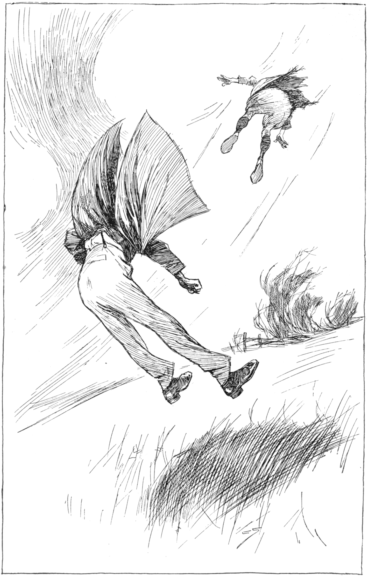 Frontispiece of H. G. Wells' The First Men in the Moon, 1st hardcover edition, published by George Newnes in 1901. Caption: "I was progressing in great leaps and bounds"